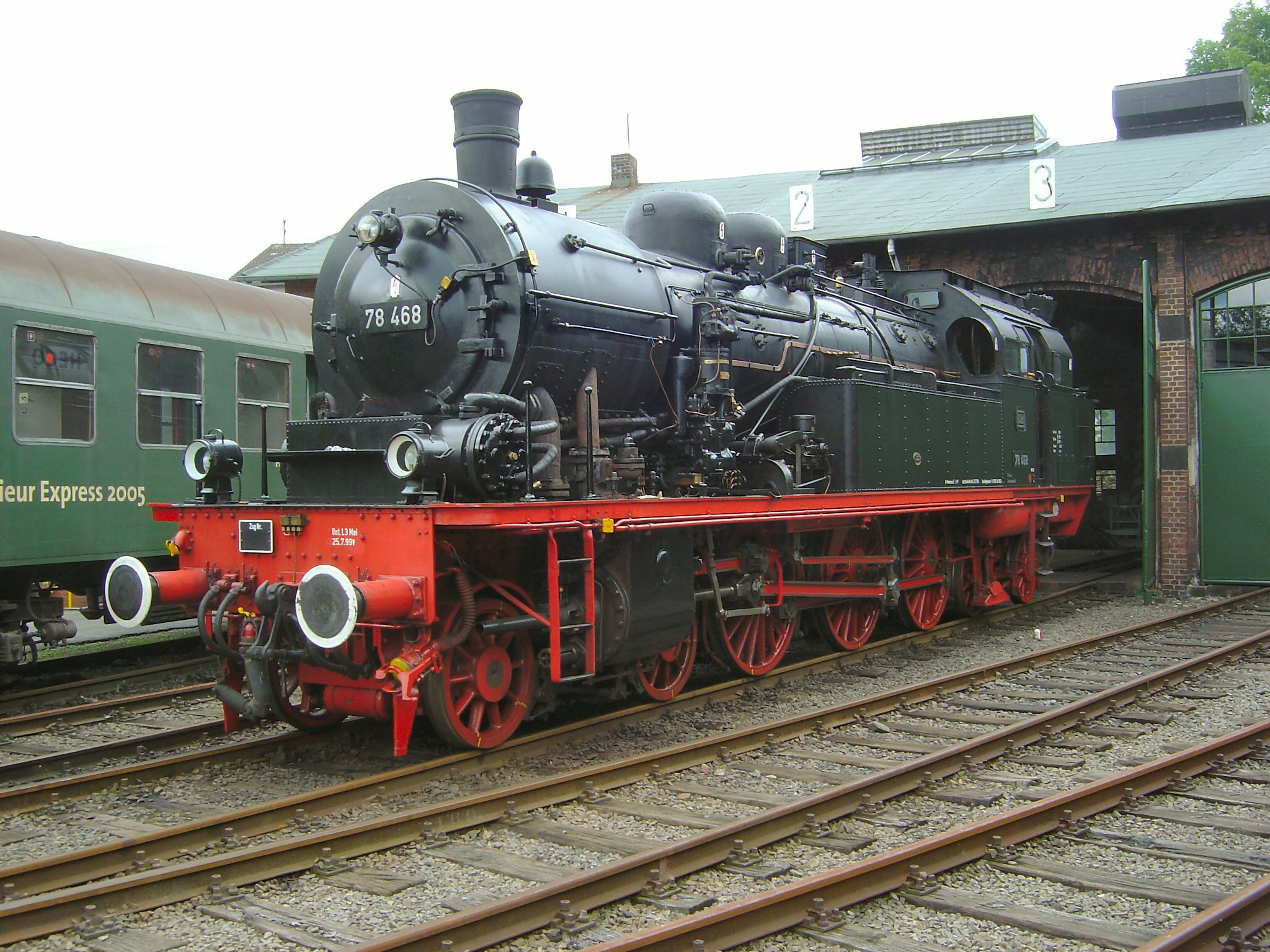 Prussian T 18 with Reichsbahn No. 78 468 in the railway museum Dieringhausen (Germany)